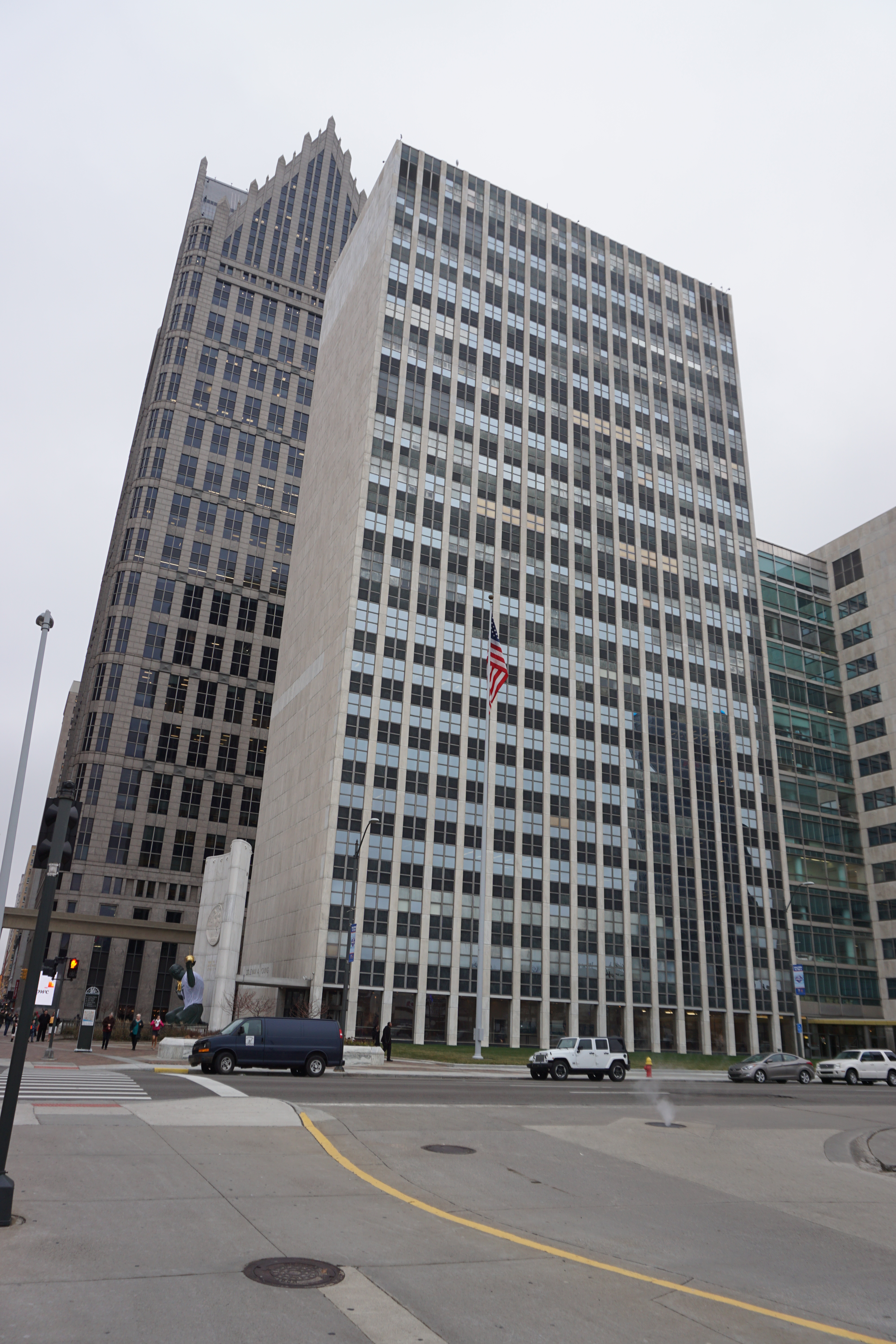 The Coleman A. Young Municipal Center in Detroit, Michigan (United States).